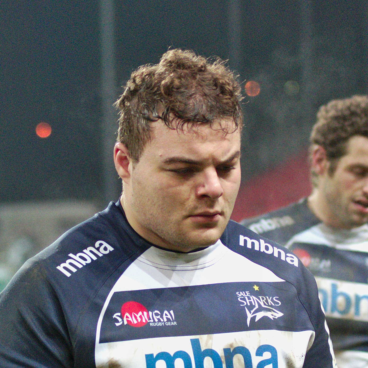 USO-Sale Sharks - 20131205 - James Flynn